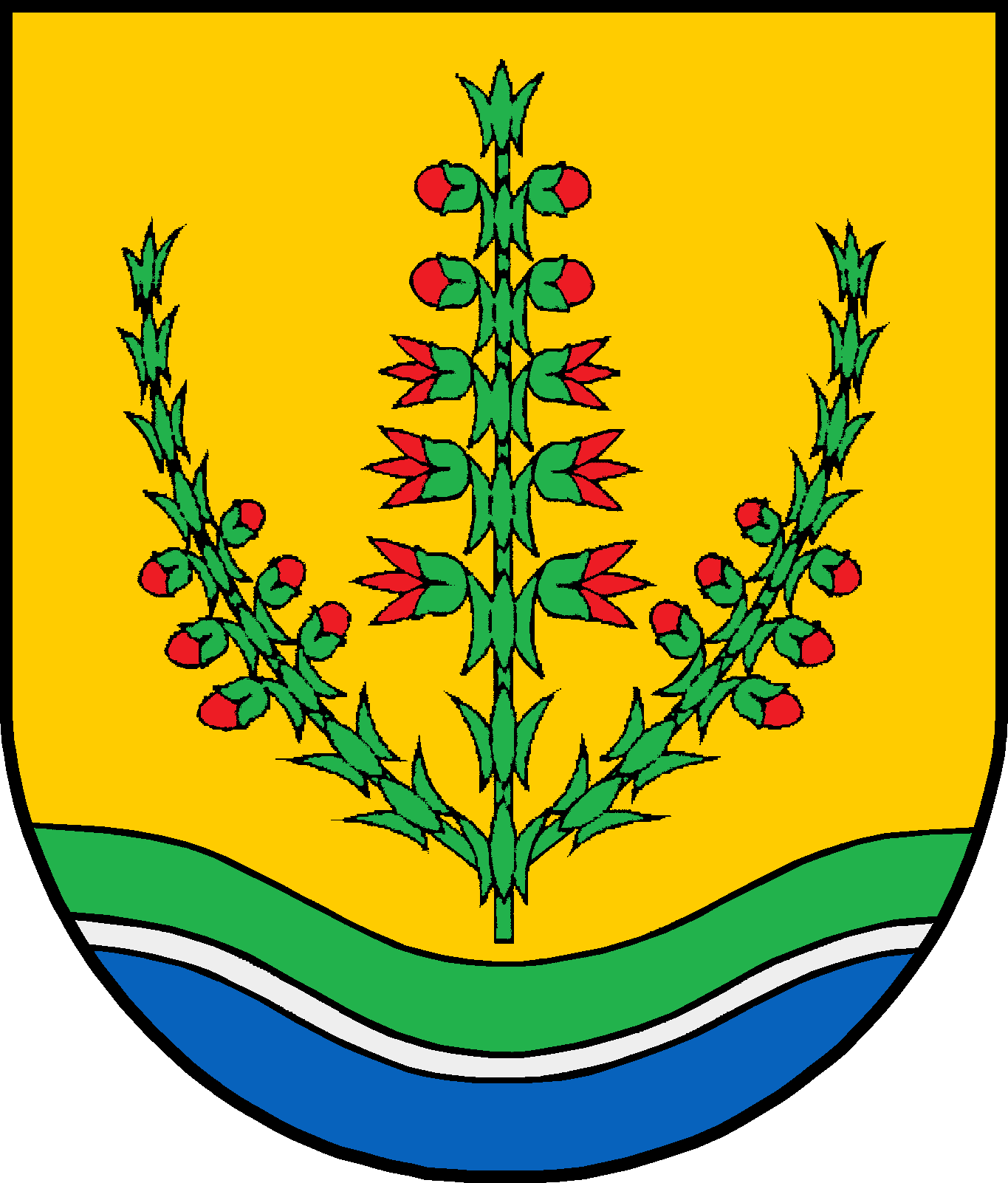 Coat of arms of the municipality Göhl in Schleswig-Holstein, Germany.